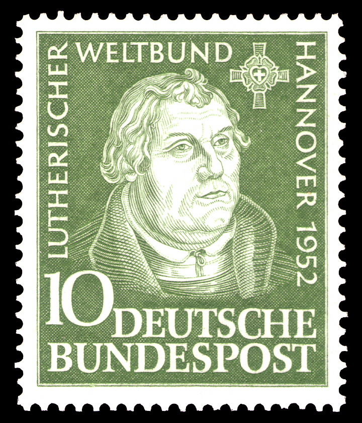 Stamp 1952 for the meeting of the Lutheran World Federation Graphics by Hermann Zapf Ausgabepreis: 10 Pfennig First Day of Issue / Erstausgabetag: 25. Juli 1952 Michel-Katalog-Nr: 149